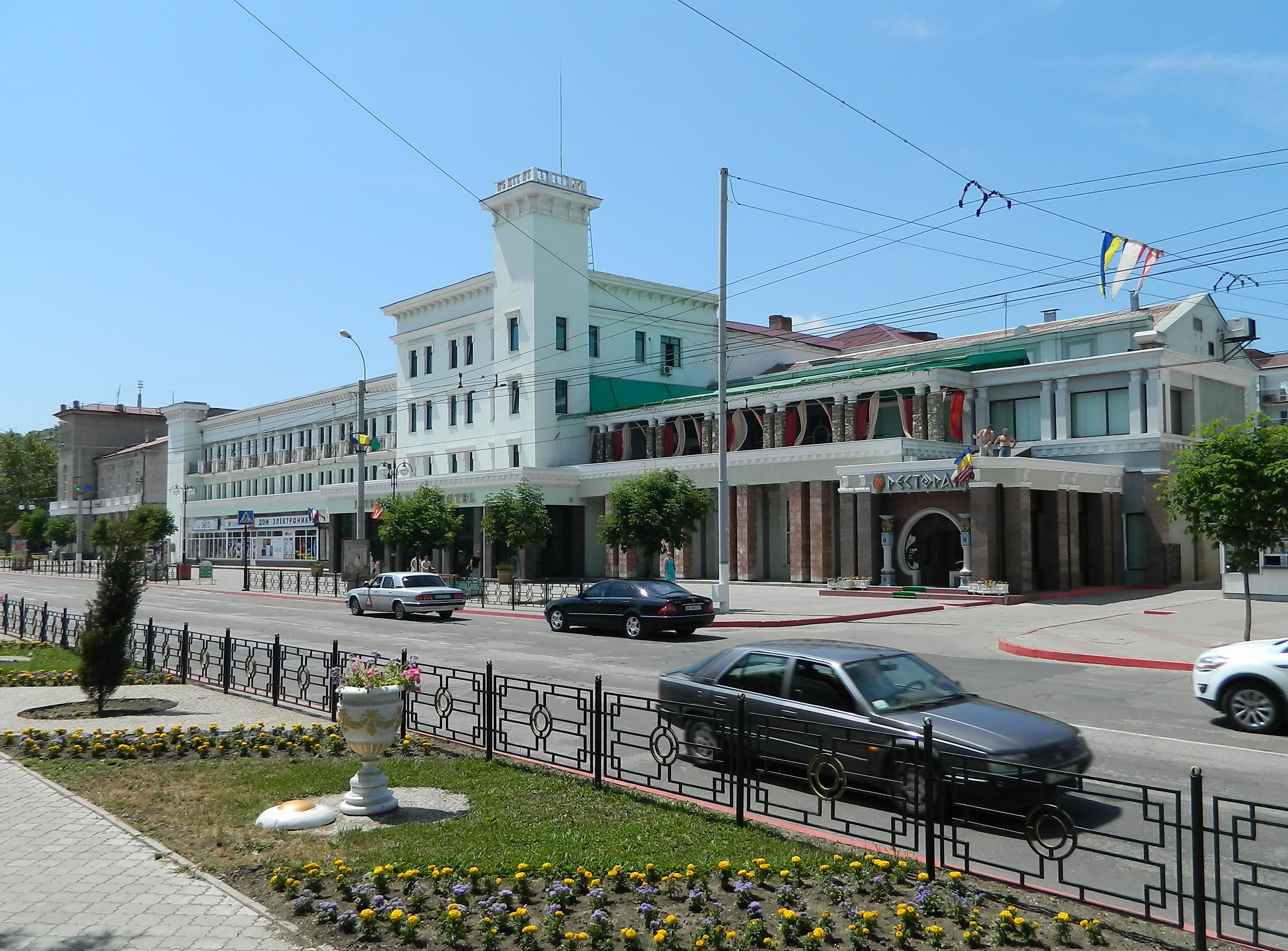 Central Hotel Kerch